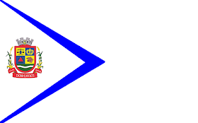 Flags of the city of Dom Cavati, Minas Gerais, Brazil.